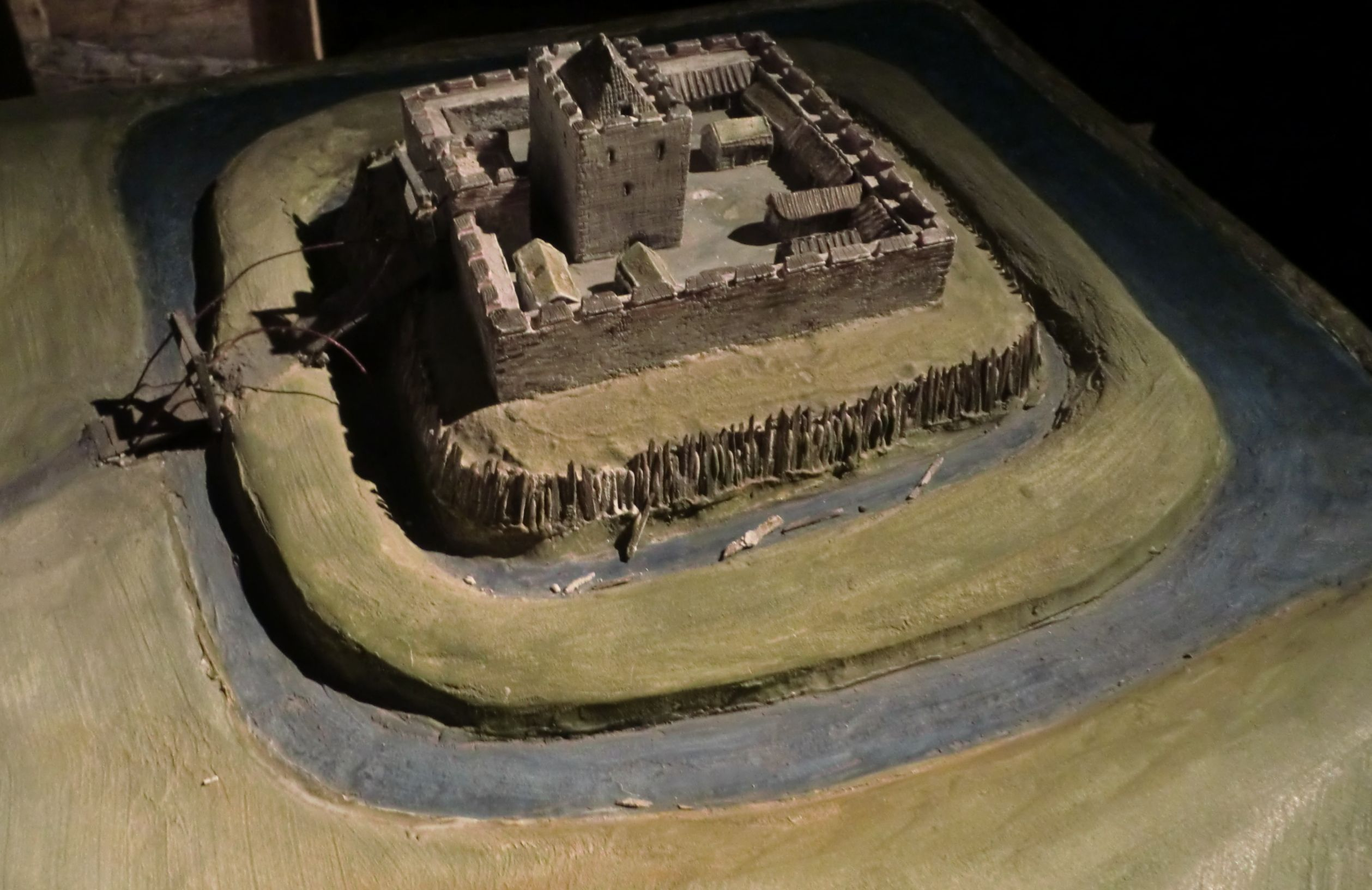 Model from Västergötlands museum of the swedish medieval castle Gälakvist in Skara.